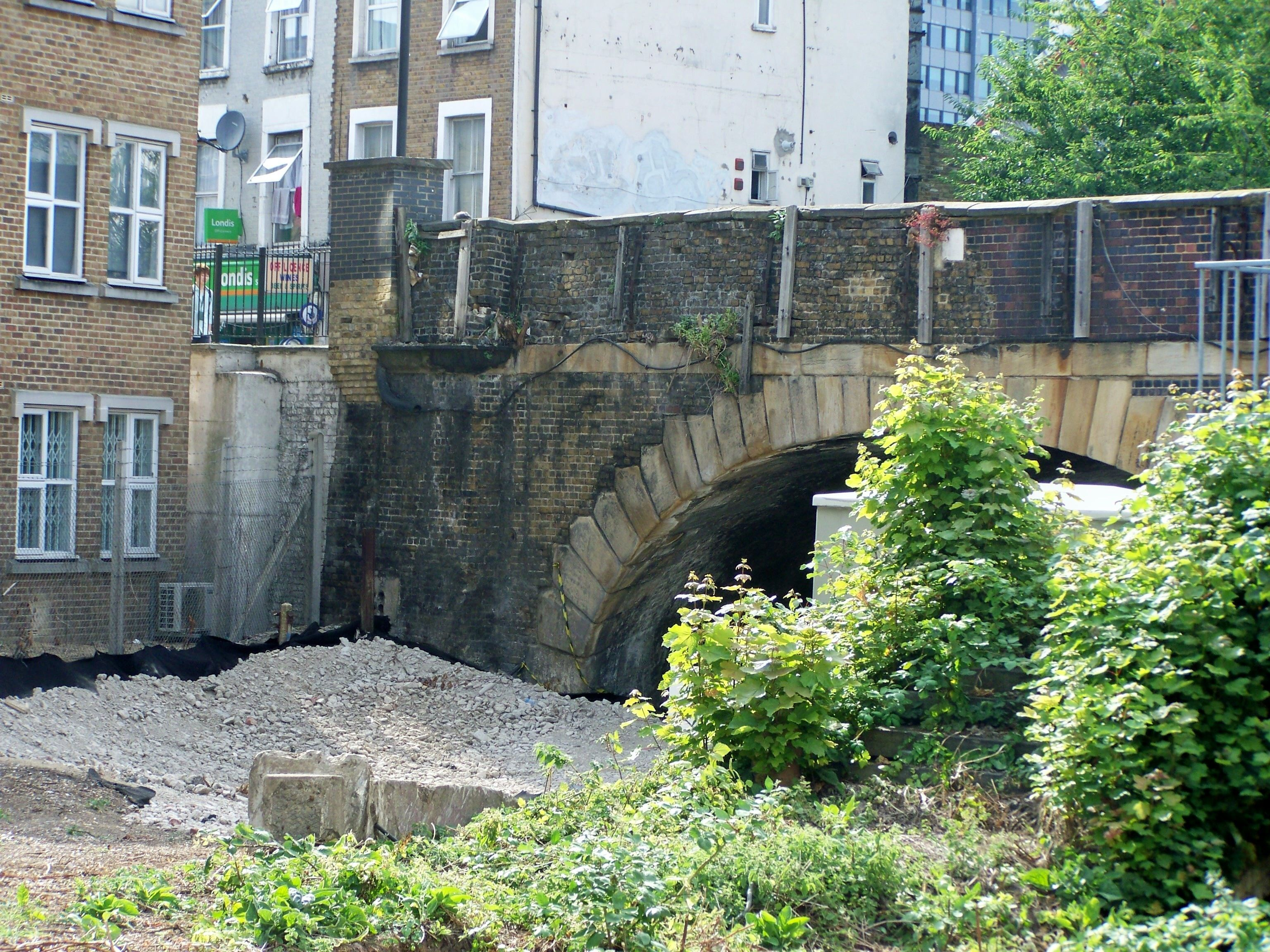 Disused 1826 canal bridge in Fulham